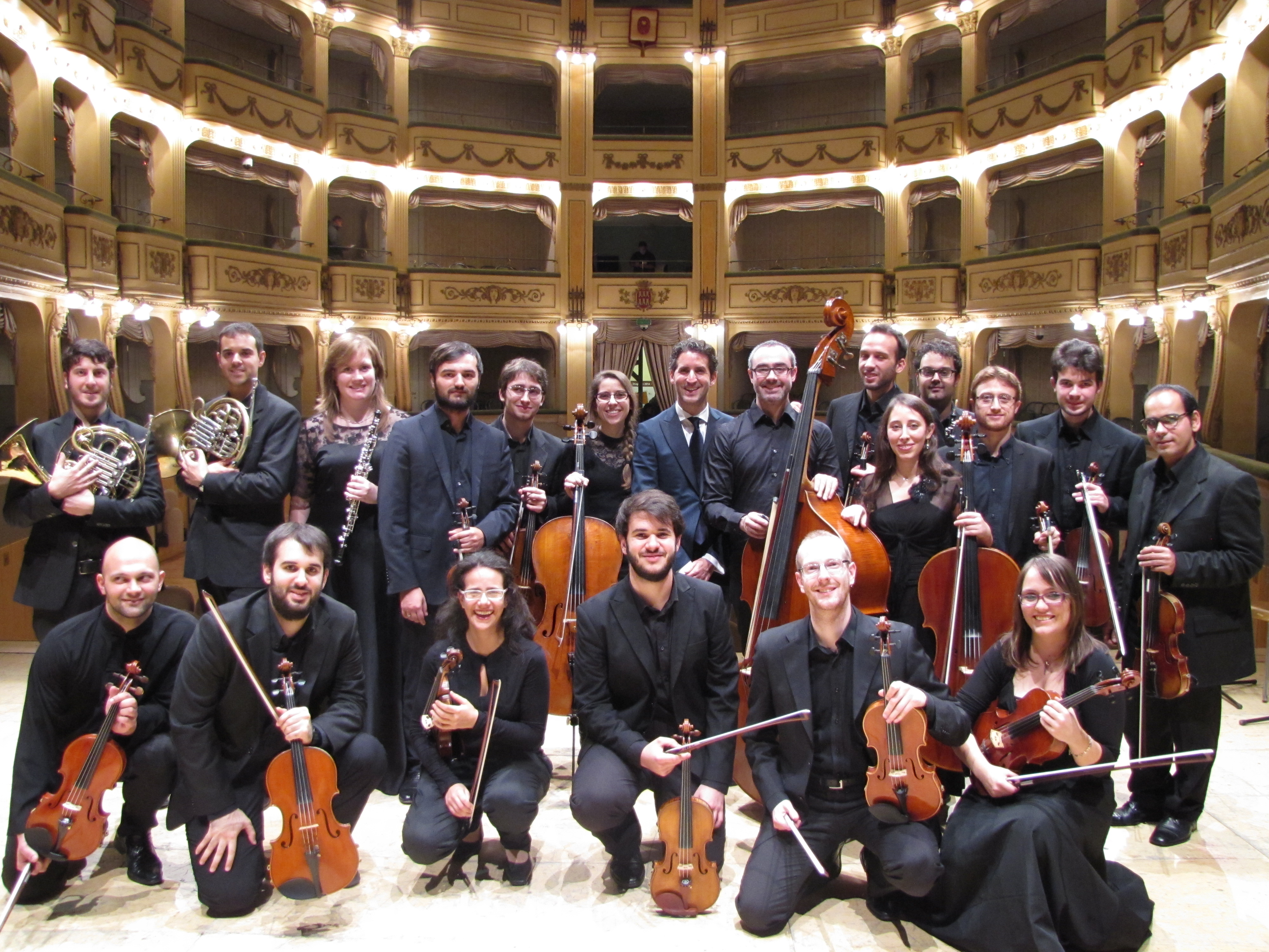 Orchestra Mozart Academy